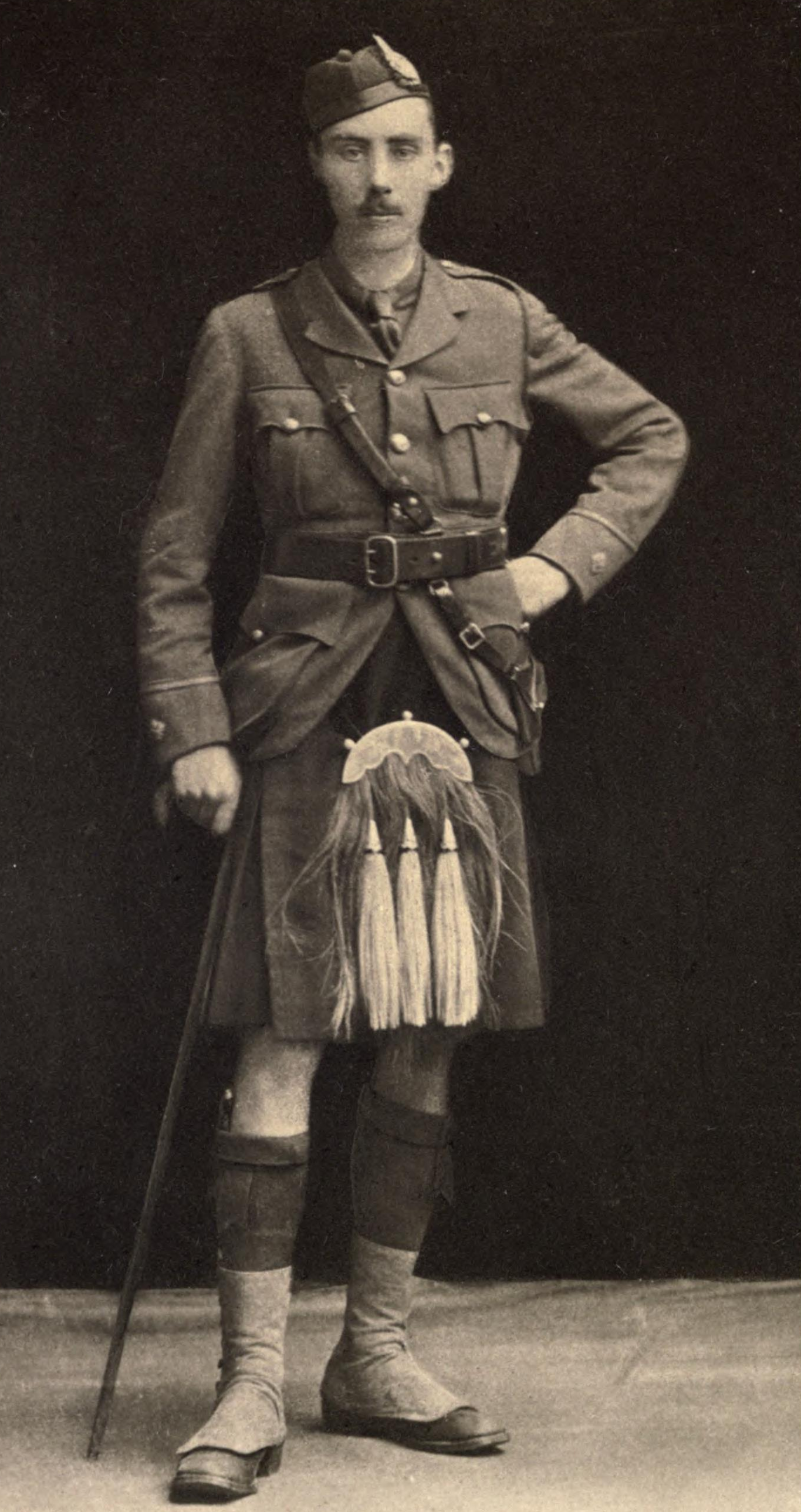 Ewart Alan Mackintosh, war poet died 1917